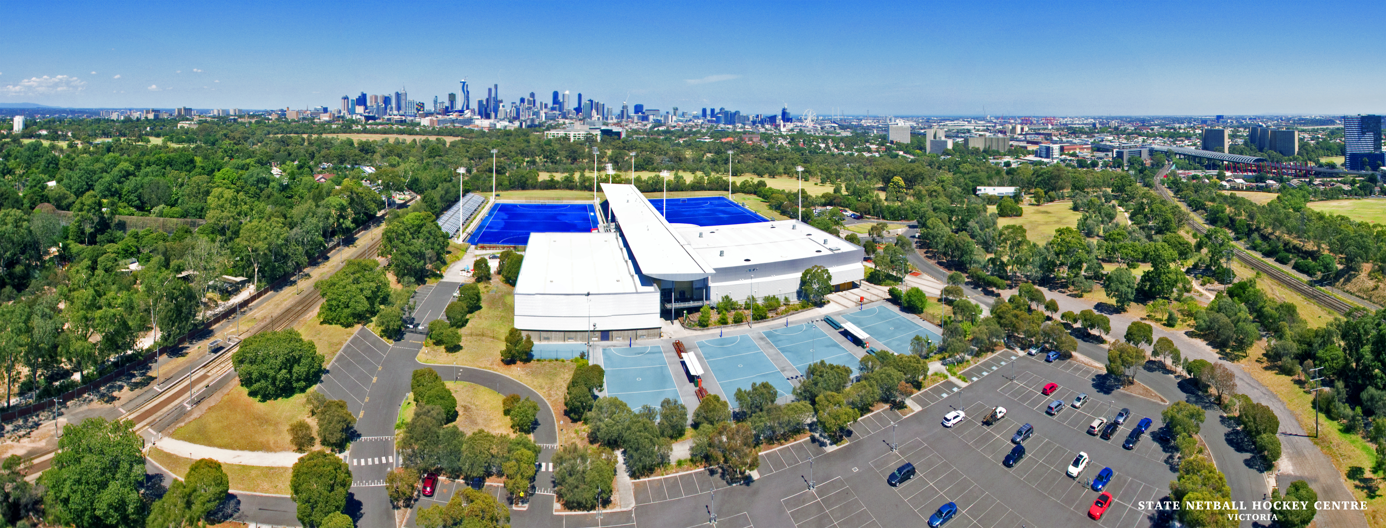 Aerial panorama of the State Netball Hockey Centre in Royal Park.